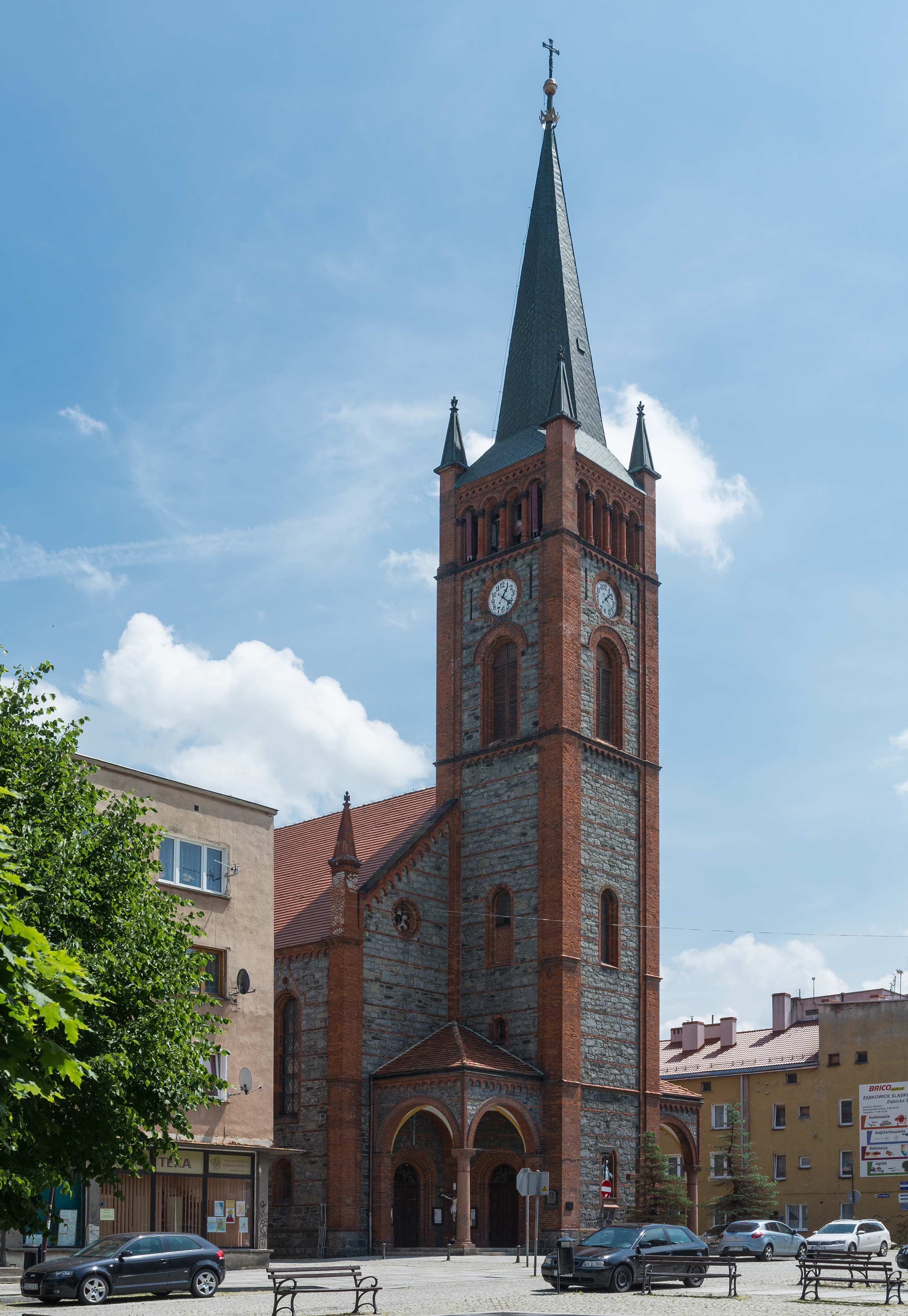 Church of Immaculate Conception Of Blessed Mary in Niemcza